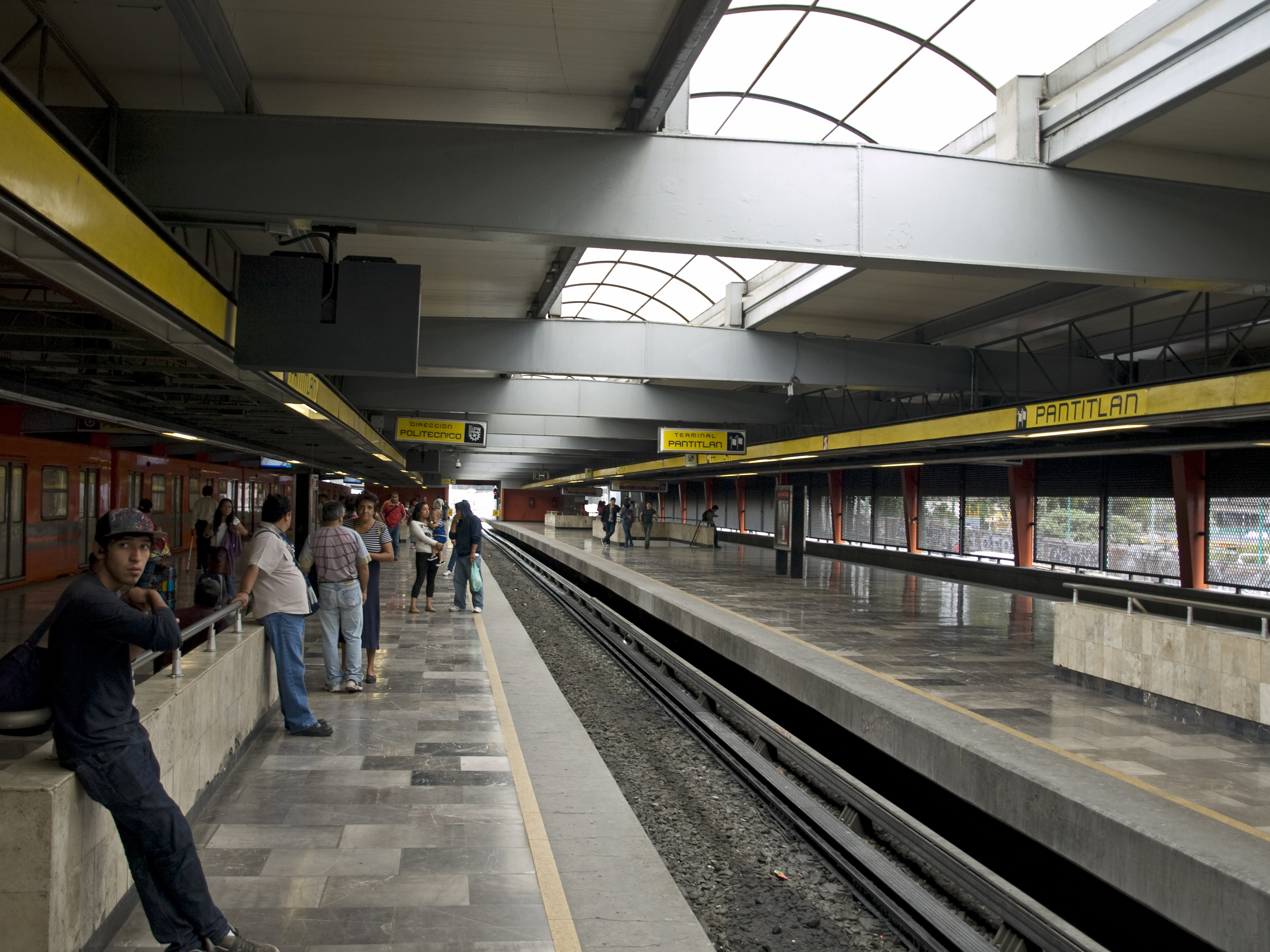 Pantitlan metro station, Line 1, platforms